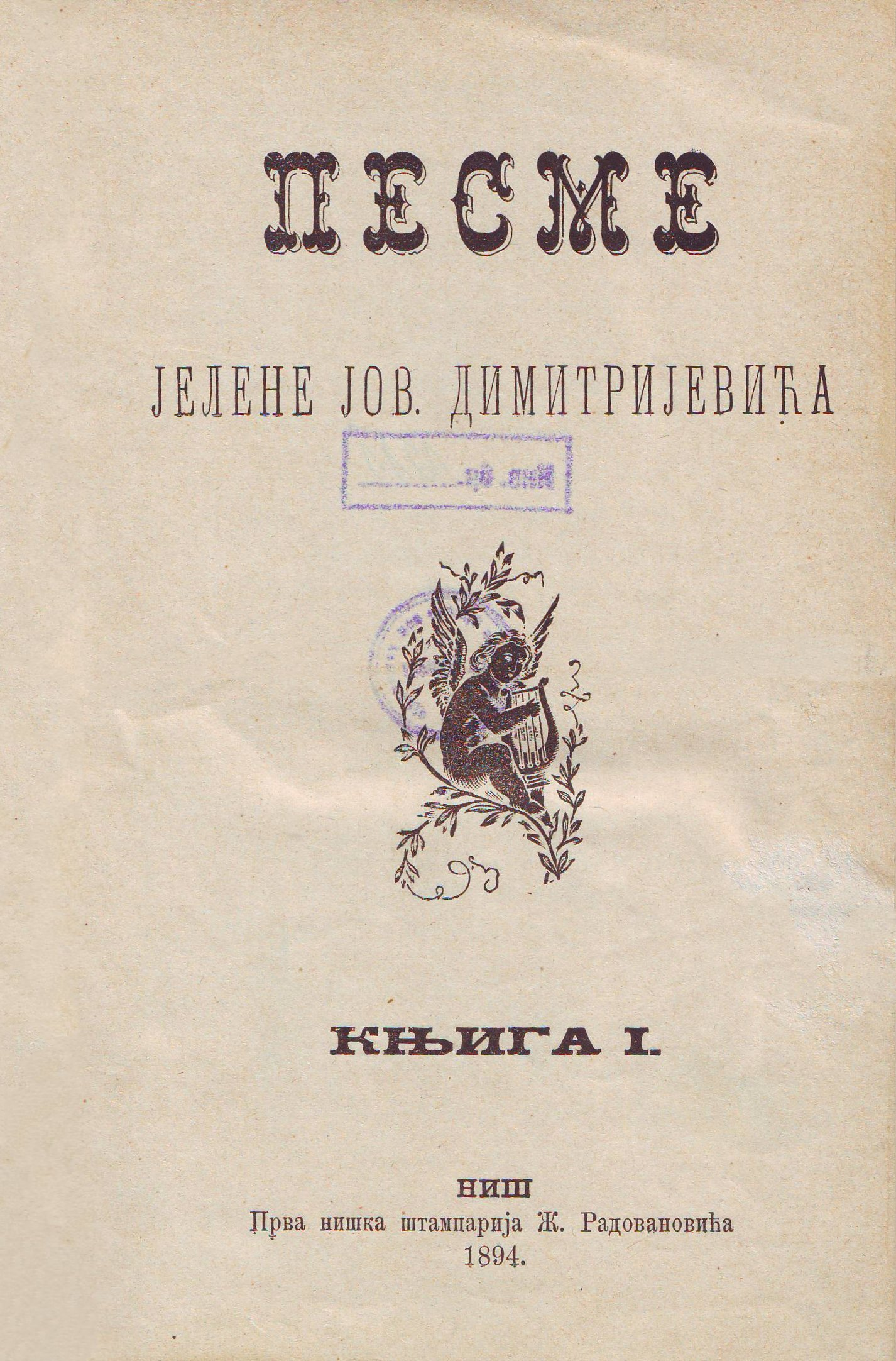 Cover of volume I of the collection of poems titled Pesme Jelene J. Dimitrijević (1894). Srpski (latinica): Naslovna strana prve knjige Pesama Jelene J. Dimitrijević (1894)